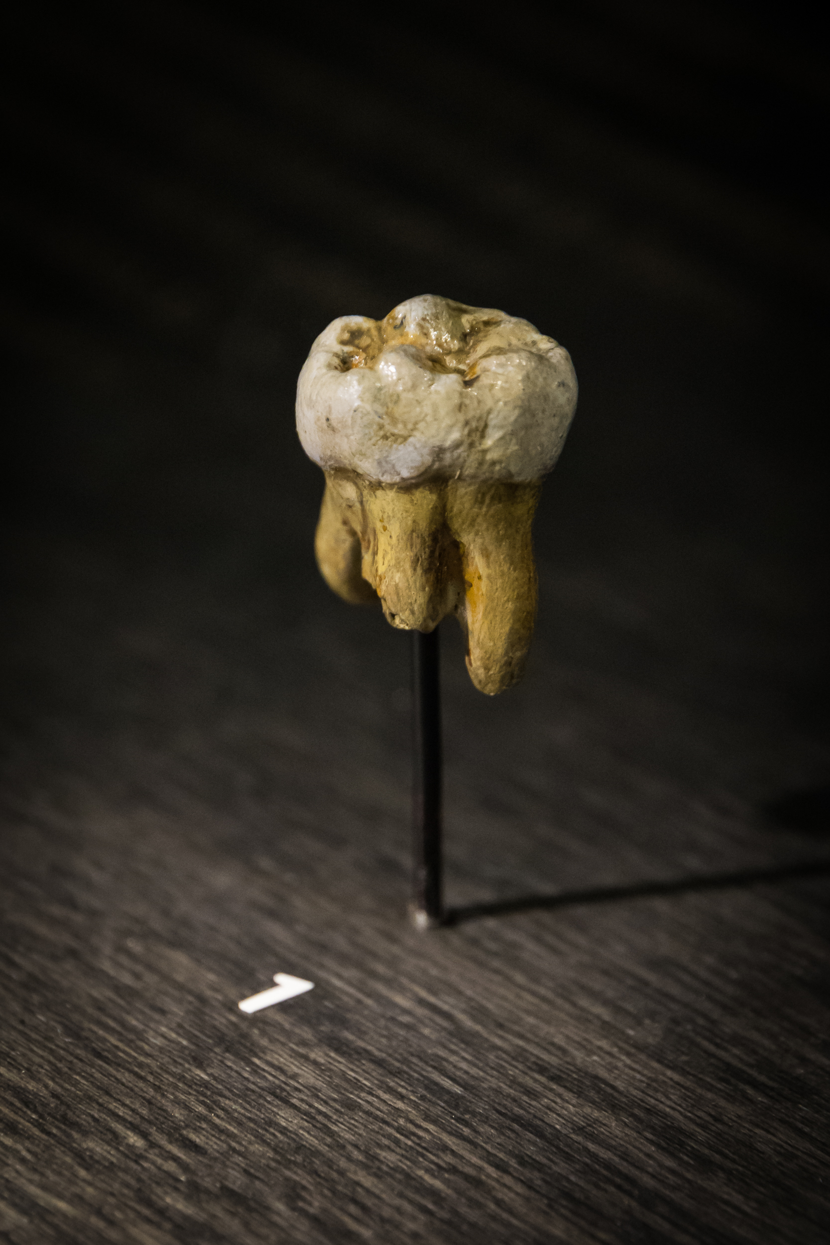 Replica of a Denisovan molar, originally found in Denisova Cave in 2000, at the Museum of Natural Sciences in Brussels, Belgium.